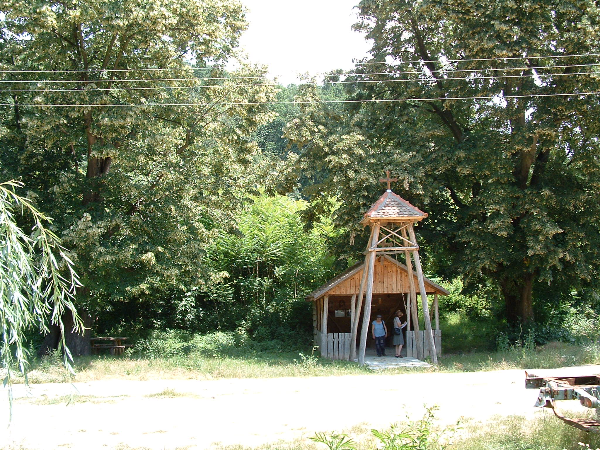 Besenovacki Prnjavor - Chapell